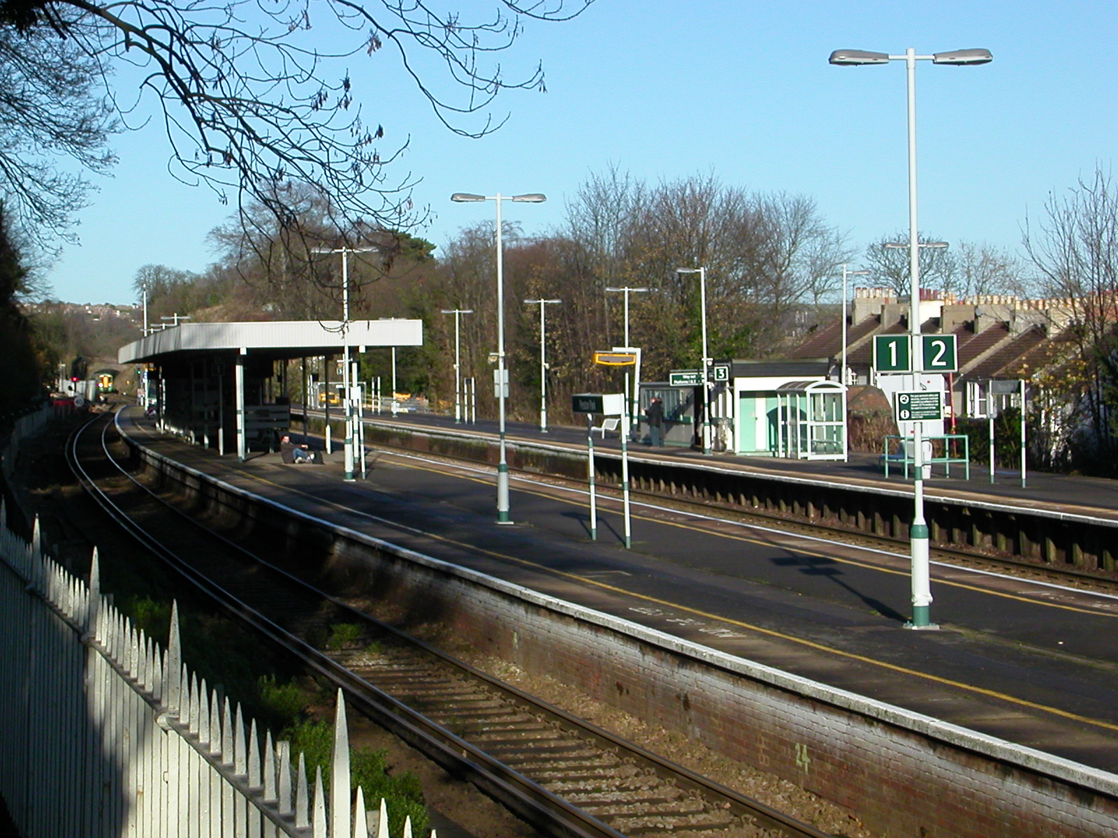 Preston Park station looking north. Photographed on 9th December 2006.